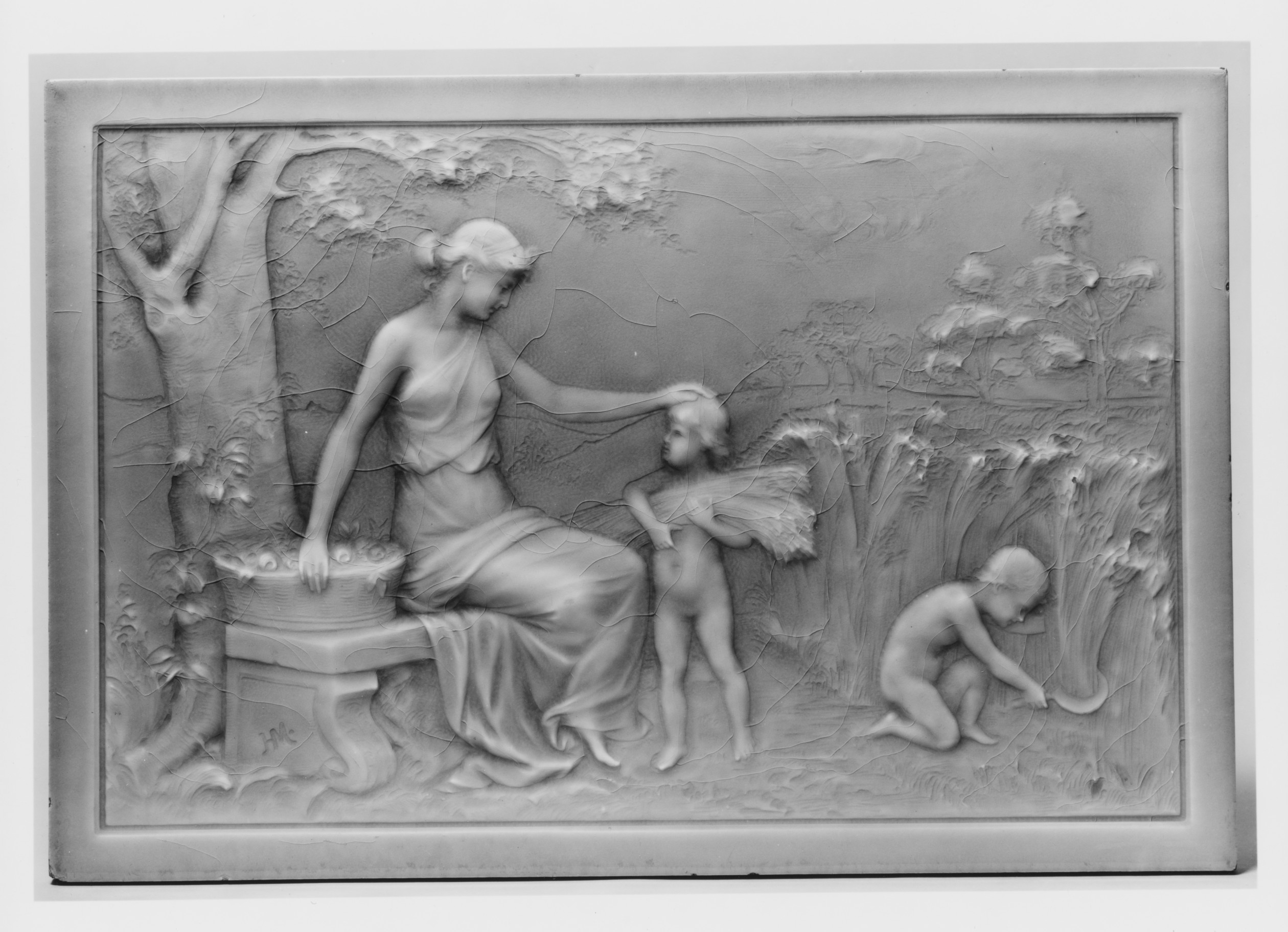 American; Encaustic tile; Ceramics